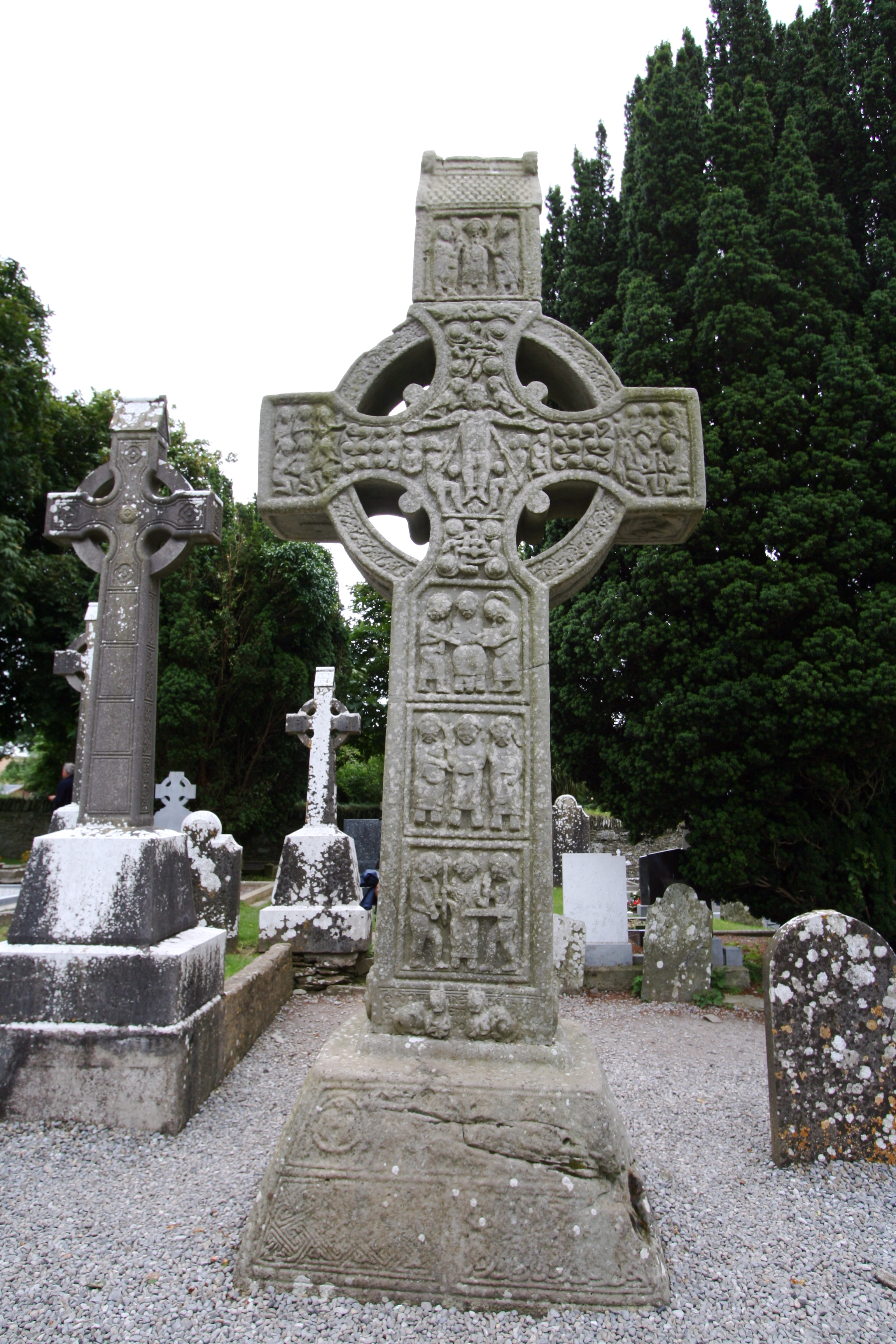 Photo of Muiredach's High Cross, located at Monasterboice, County Louth, in the Republic of Ireland.Monasterboice 22